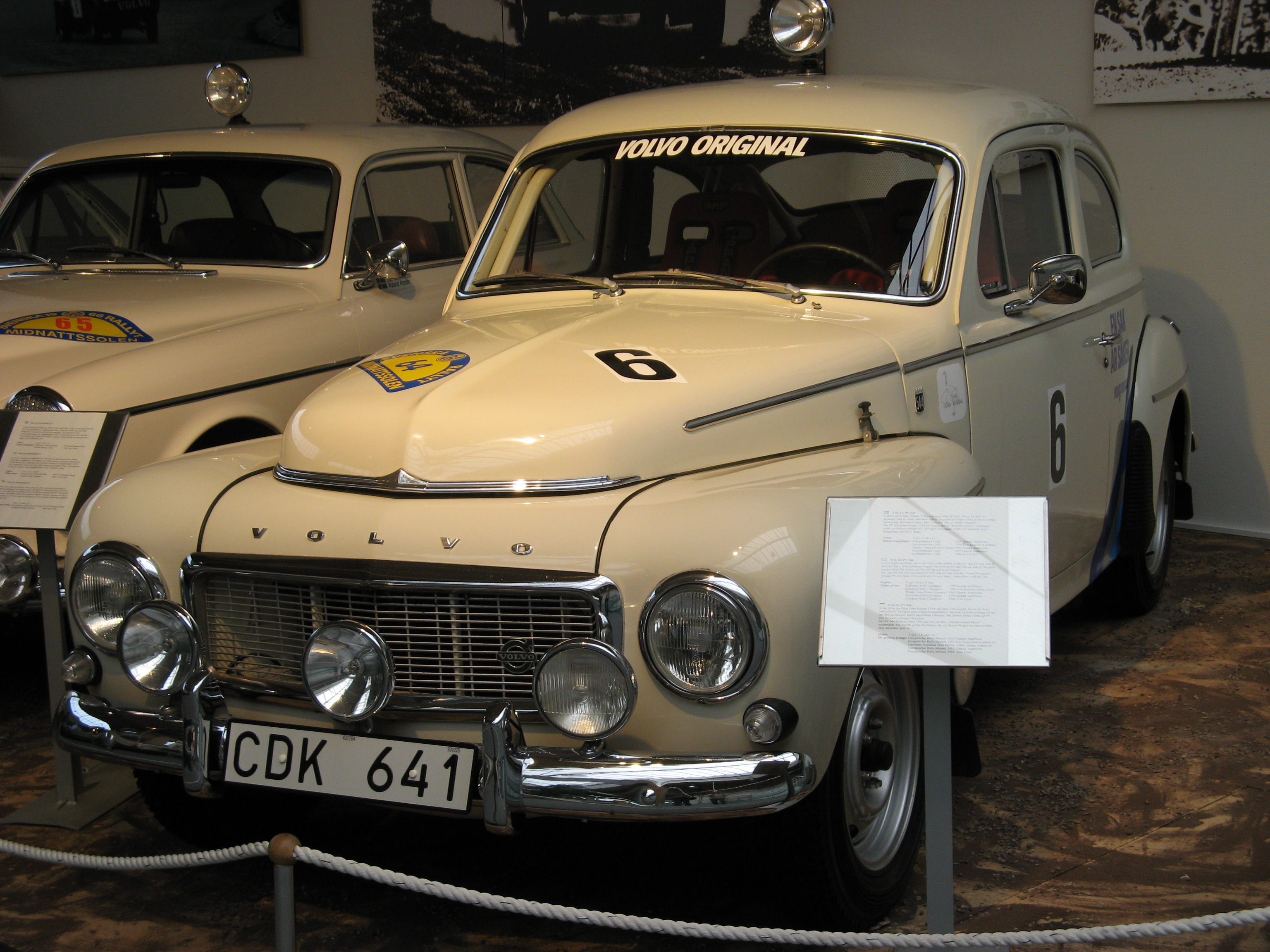 Rallye version